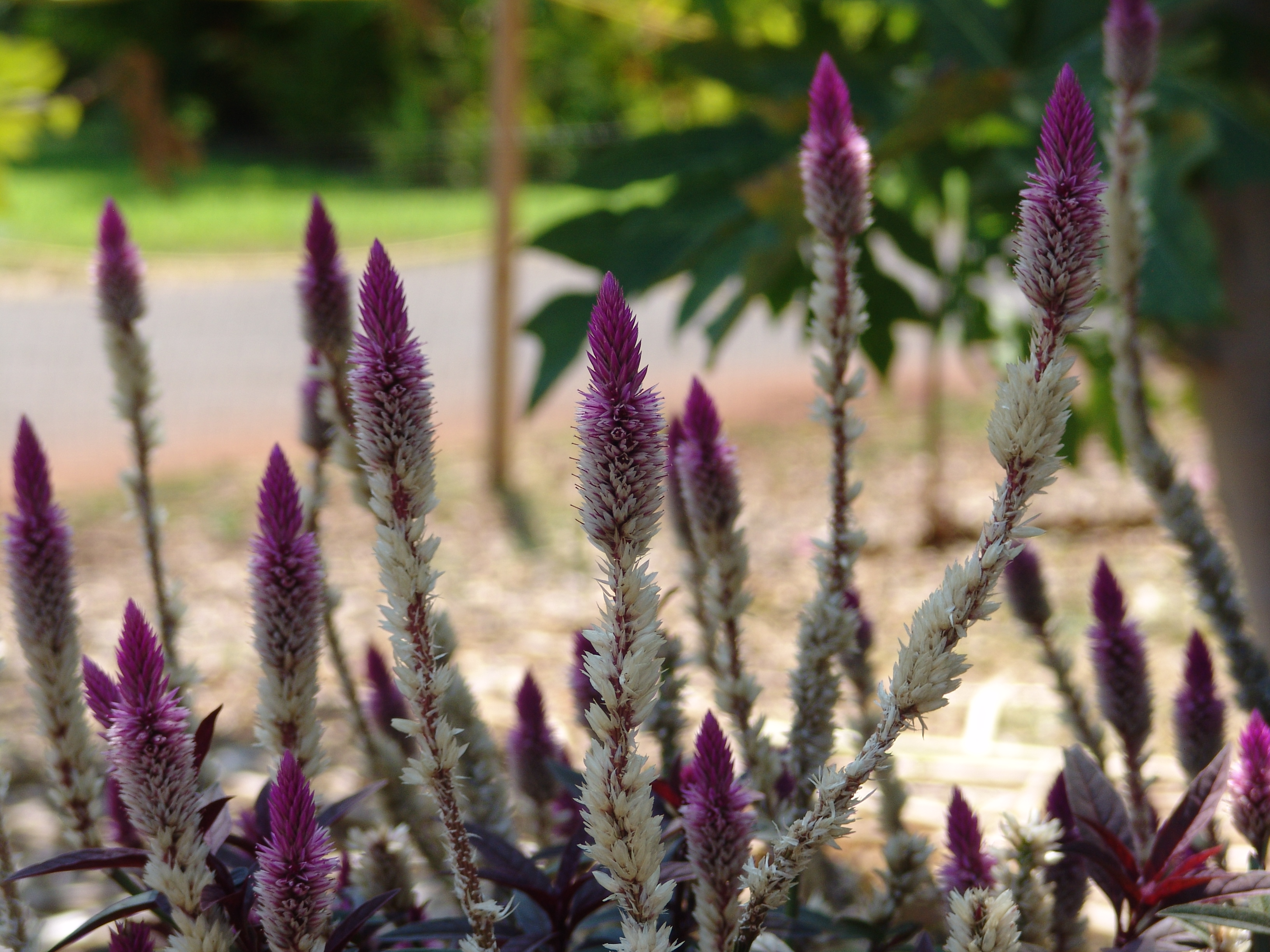 Flamingo Feathers (Celosia spicata) in Honolulu Zoo Oahu Hawaii